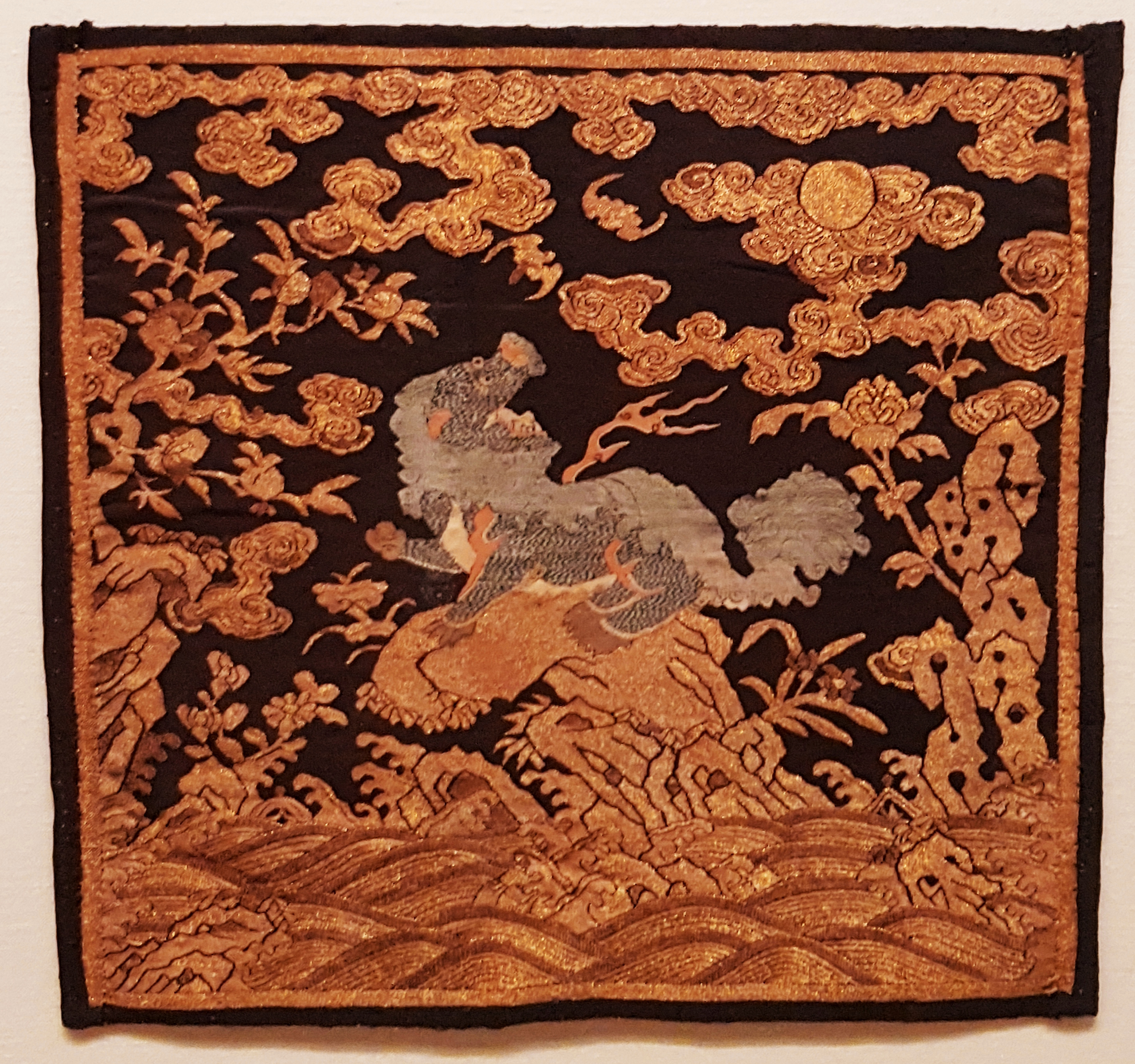 Rank badge a Chinese military official in the second rank, displaying a lion. Tapestry weave (kesi).